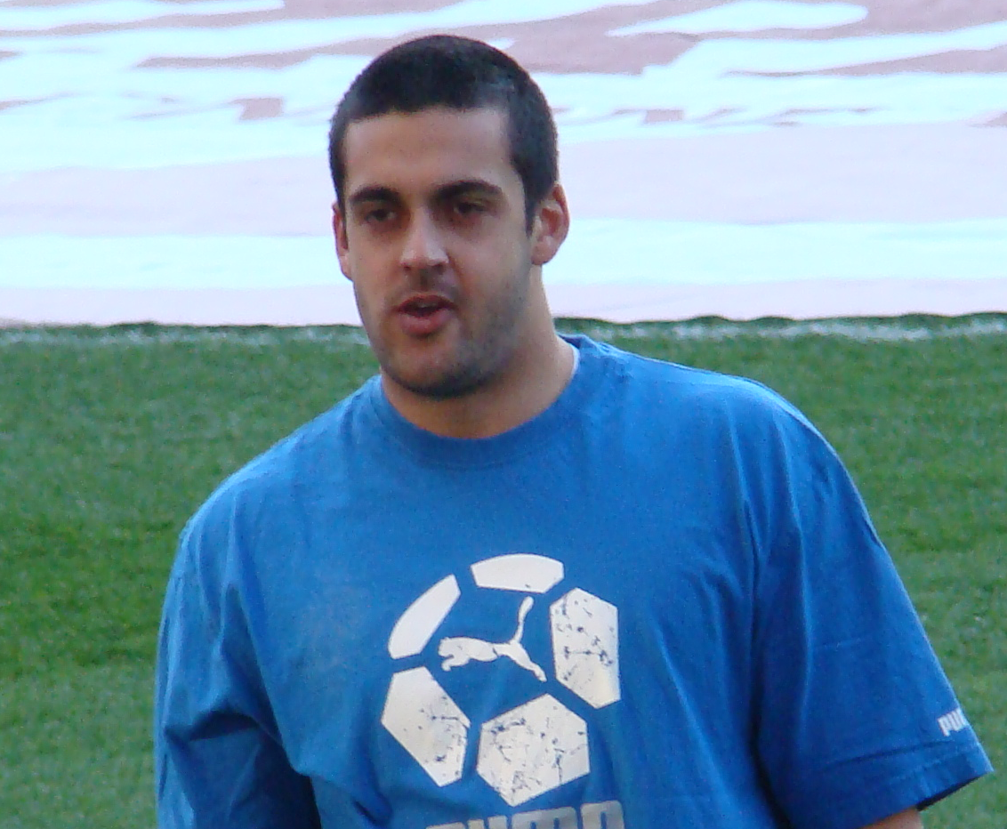 Adam Federici warming up against Aston Villa